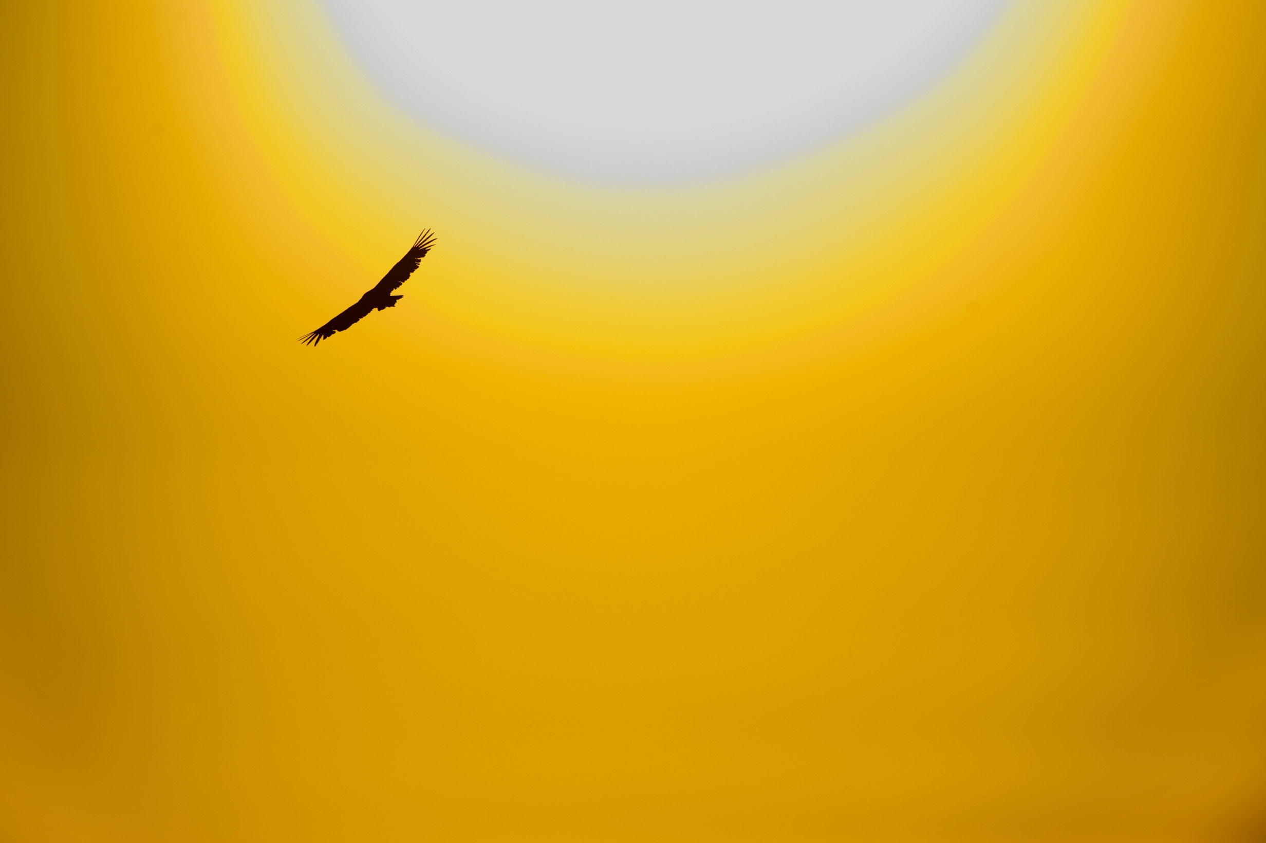 Griffon Vulture (Gyps fulvus) flying against a fiery afternoon sun, in Spain